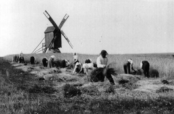 Harvesting in Saarenmaa, Estonia, in 1913.